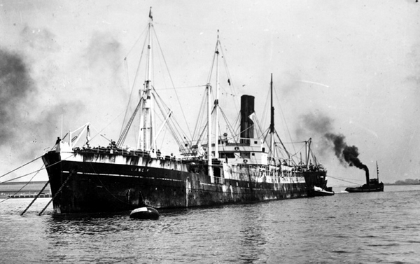 A/S Globus's whaling factory ship Lancing (1898), ex. Knight Errant, Rio Tiete, Omsk, Calanda and Flackwell. Sunk by German submarine U-552 on 1942-04-07